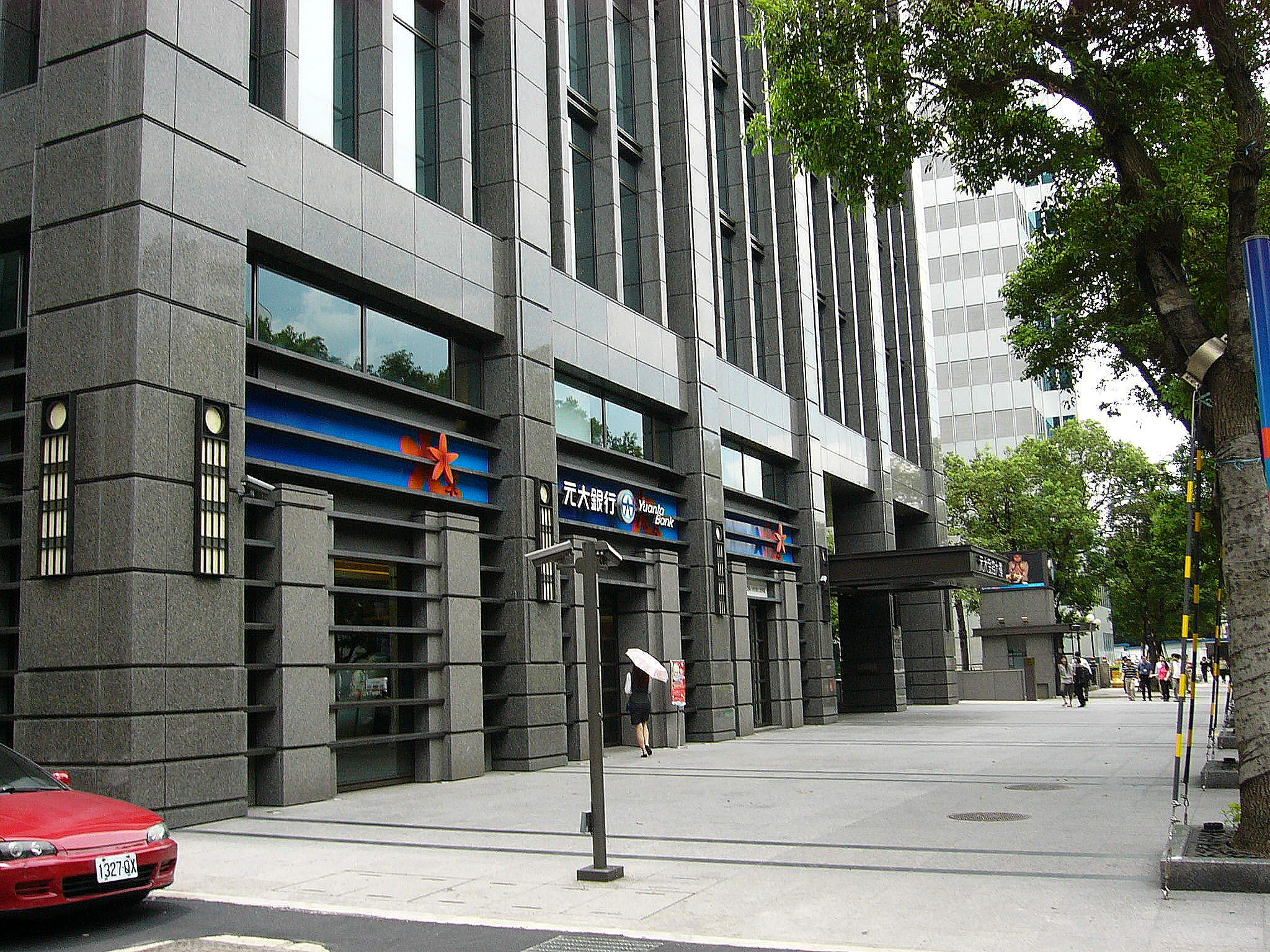 Yuanta Bank headquarters in Yuanta Financial Tower 1F.